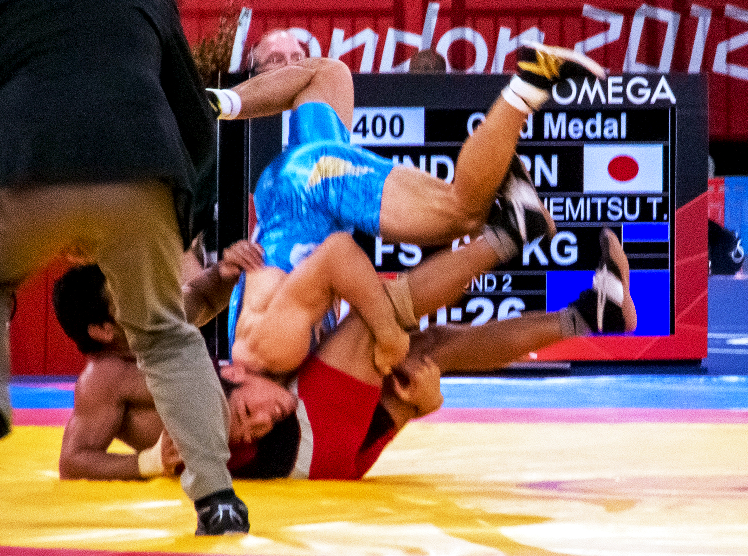 Gold Medal Match, Tatsuhiro Yonemitsu (blue) vs. Sushil Kumar, at the 2012 Summer Olympics.